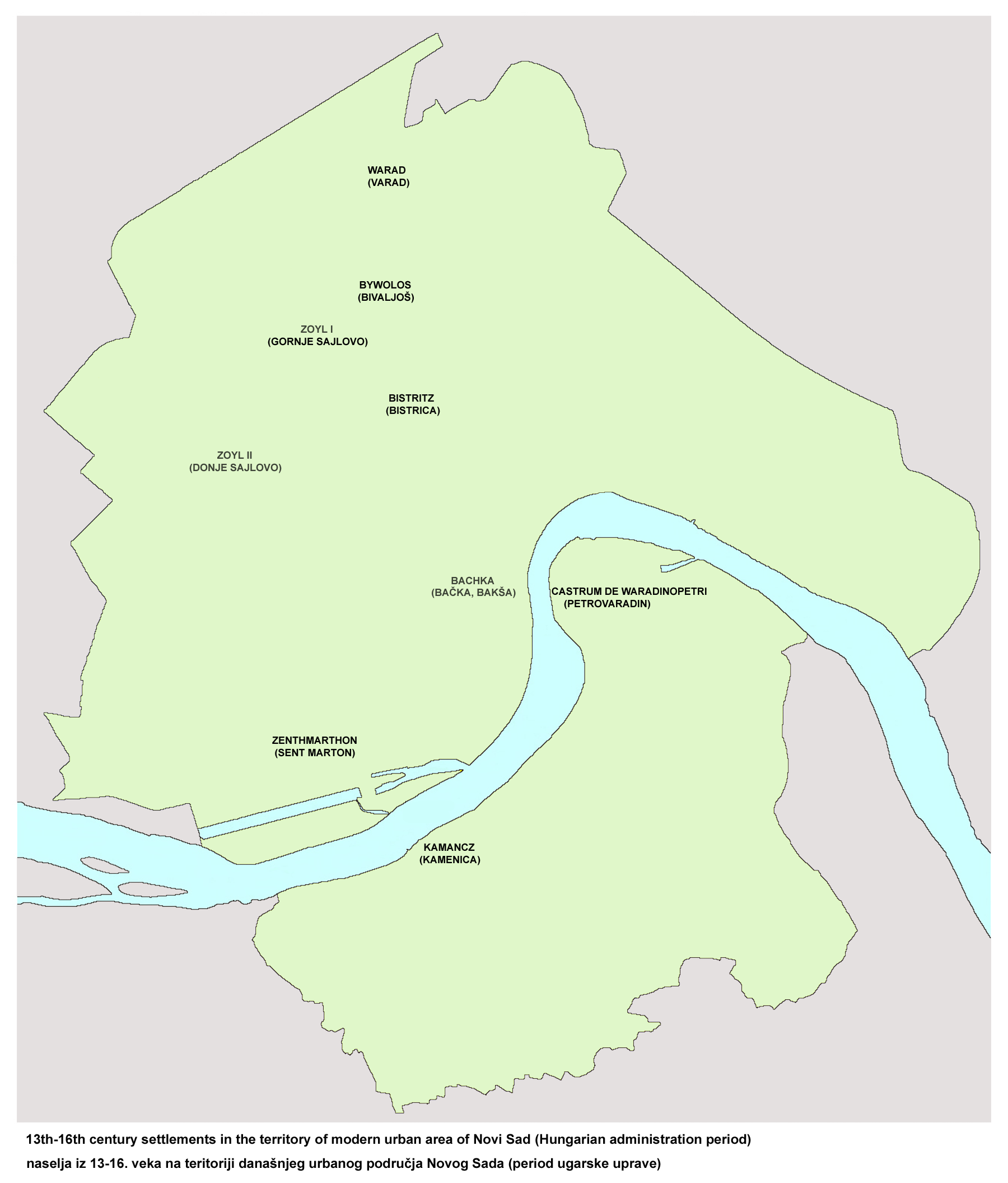 13th-16th century settlements in the territory of modern urban area of Novi Sad (Hungarian administration period).